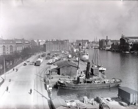 Christians Brygge in Copenhagen, Denmark